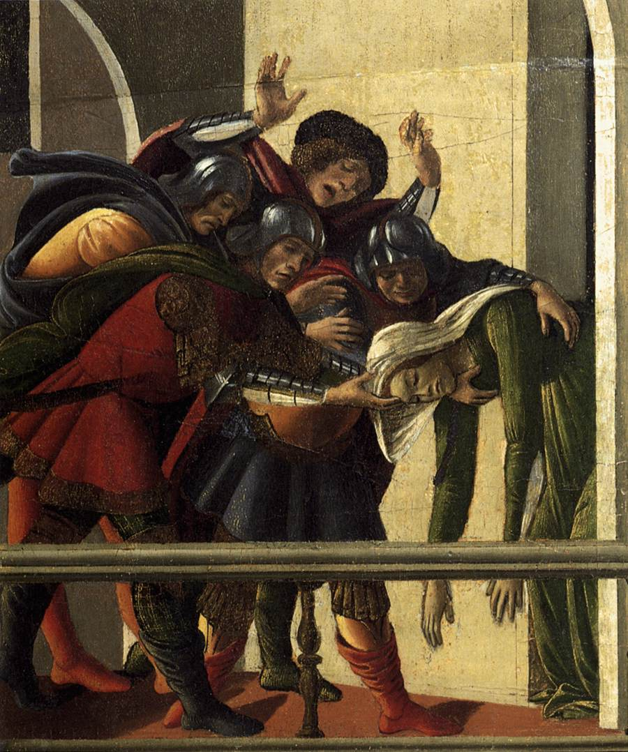 The History of Lucretia